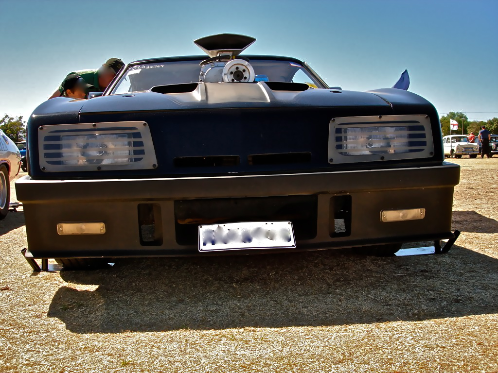 Front View of a replica of Mad Max's Pursuit Special, based on a Ford XB Falcon Hardtop.